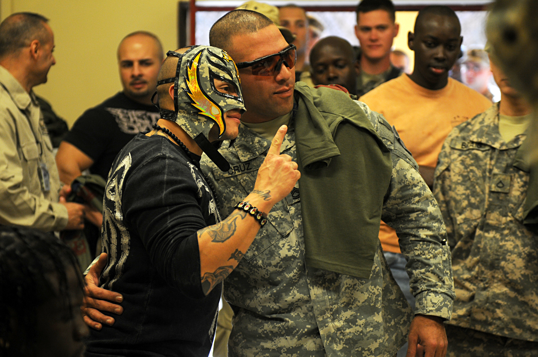 Sergeant 1st Class Juan F. Cruz, a career counselor with Headquarters and Headquarters Company, 4th Infantry Brigade Combat Team, 4th Infantry Brigade Combat Team, 1st Infantry Division out of Fort Riley, Kan., poses for a picture with World Wrestling Entertainment superstar, Rey Mysterio during the WWE’s visit to Forward Operating Base Paliwoda, Dec. 3.